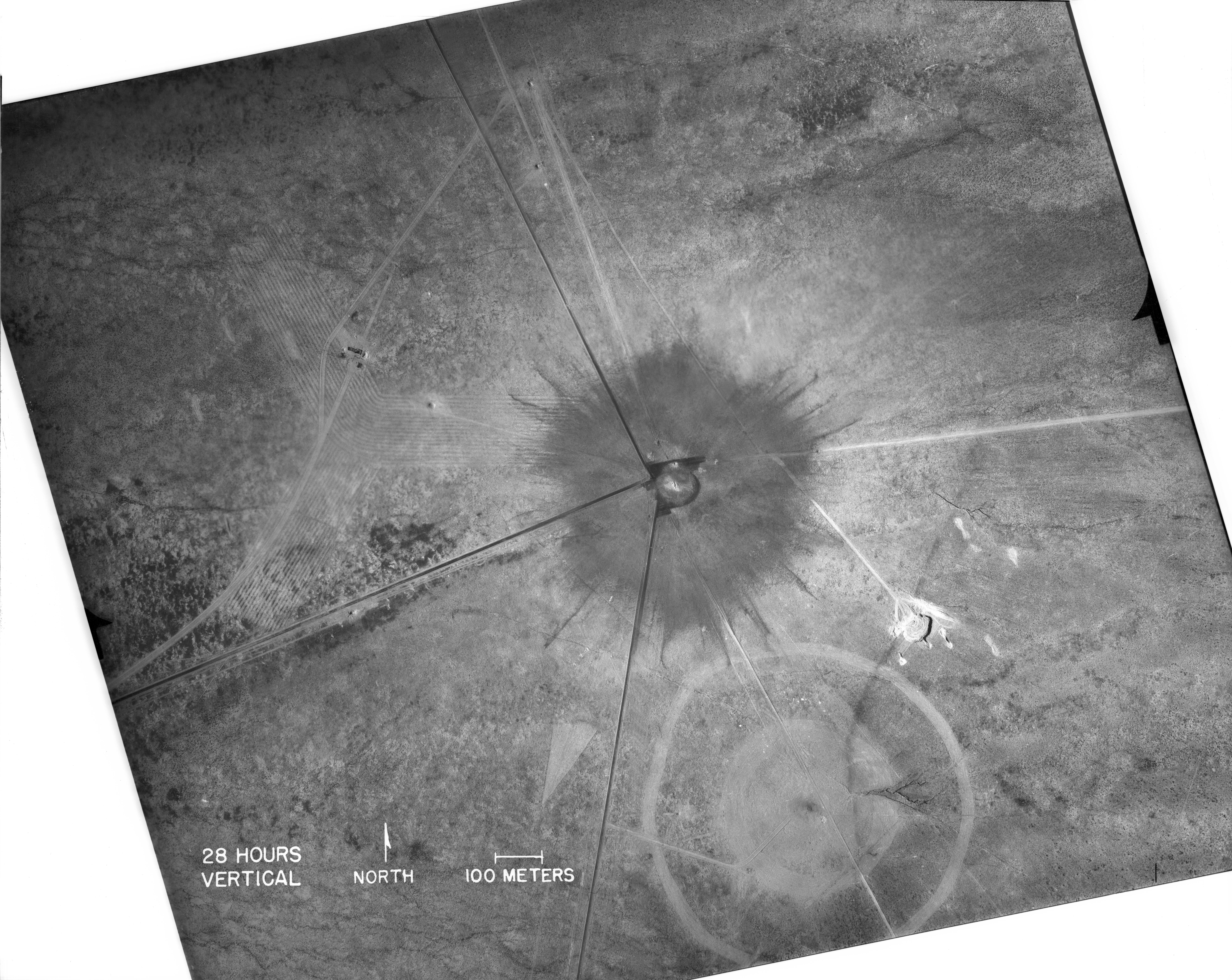 White Sands, New Mexico. Aerial view of the aftermath of the Trinity test, 28 hours after the explosion. The smaller crater to the southeast is from the earlier detonation of 100 tons of TNT on May 7, 1945. The dark straight lines are roads. To the left of the crater can be seen the "Jumbo" container, unharmed, and its collapsed tower (a vertical line).